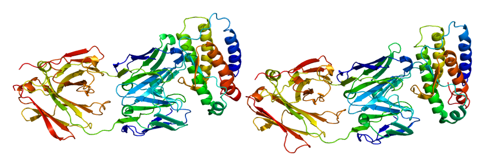 Structure of the THPO protein. Based on PyMOL rendering of PDB 1v7m.